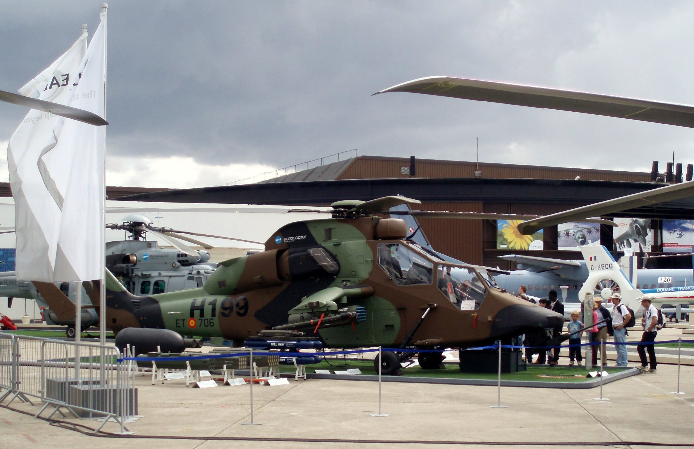 Pic. of the Eurocopter Tigre, taken at Paris Air Show